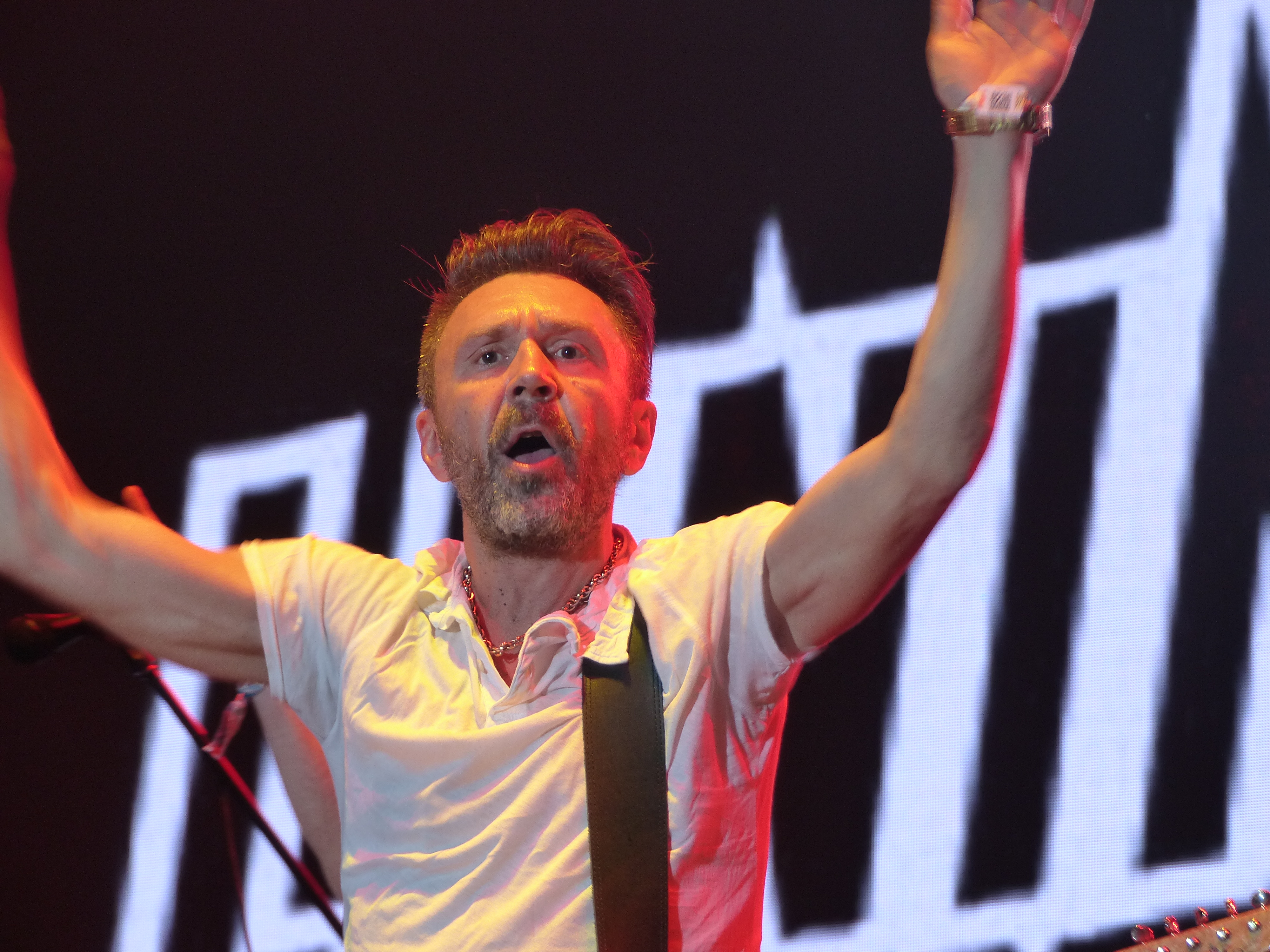 Taken on Saturday, the 13th of August, 2016. Leningrad (band) from Russia. World Music Stage, Sziget Festival, Budapest. Published in Yotel 296 DVD ISBN 978-615-5011-15-3 Sources